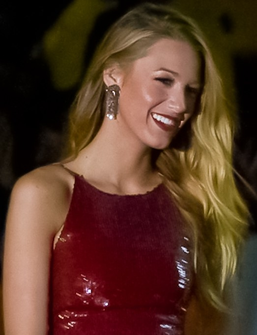 An American actress Blake Lively at the premiere of "The Town" directed by Ben Affleck, during the Toronto International Film Festival, 2010.